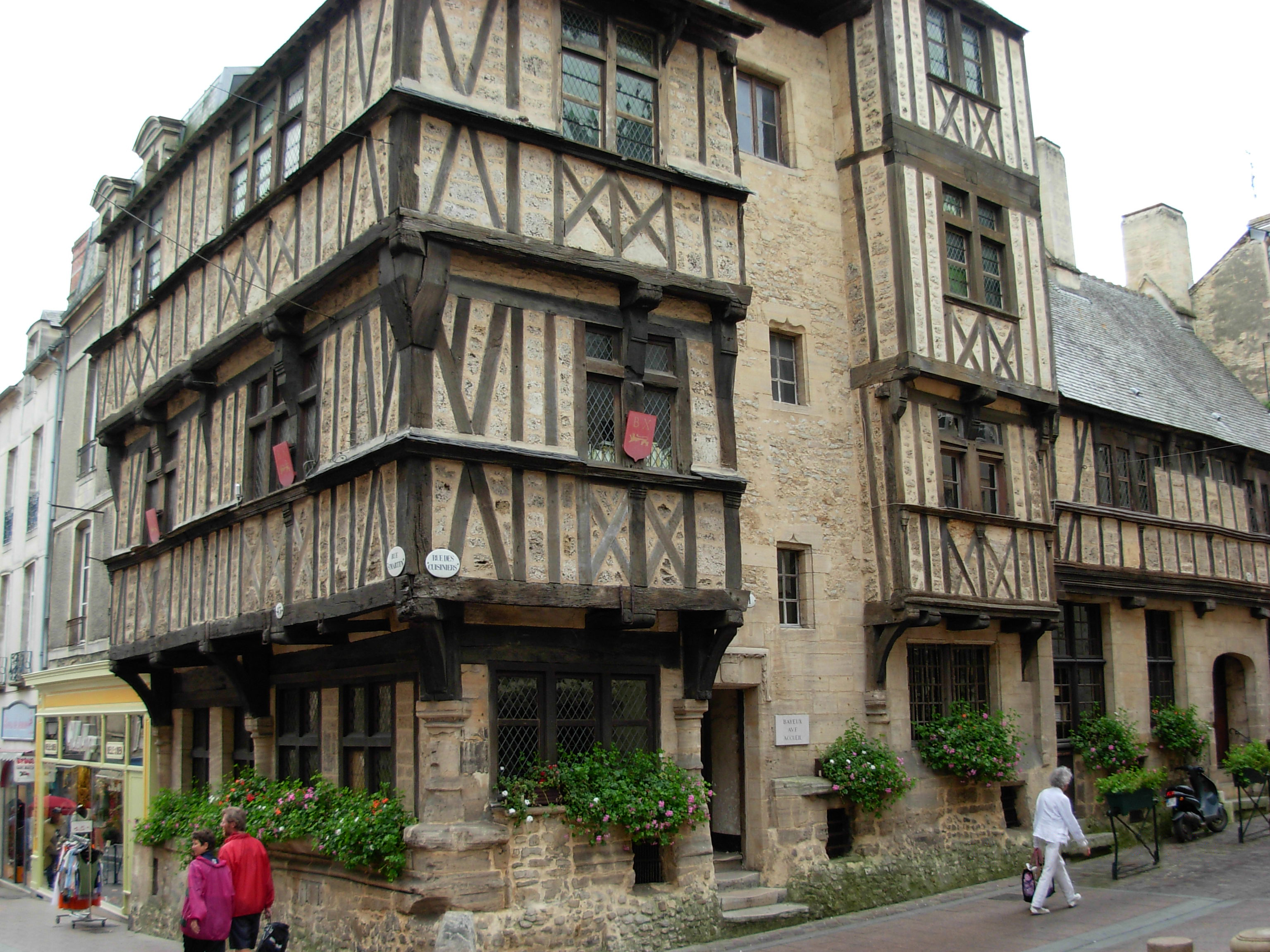 Old norman building, Bayeux centre ville